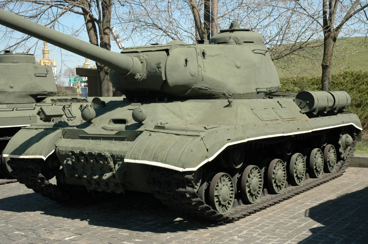 Iosif Stalin IS-2M Soviet heavy tank (Museum of Great Patriotic War, Kyiv)